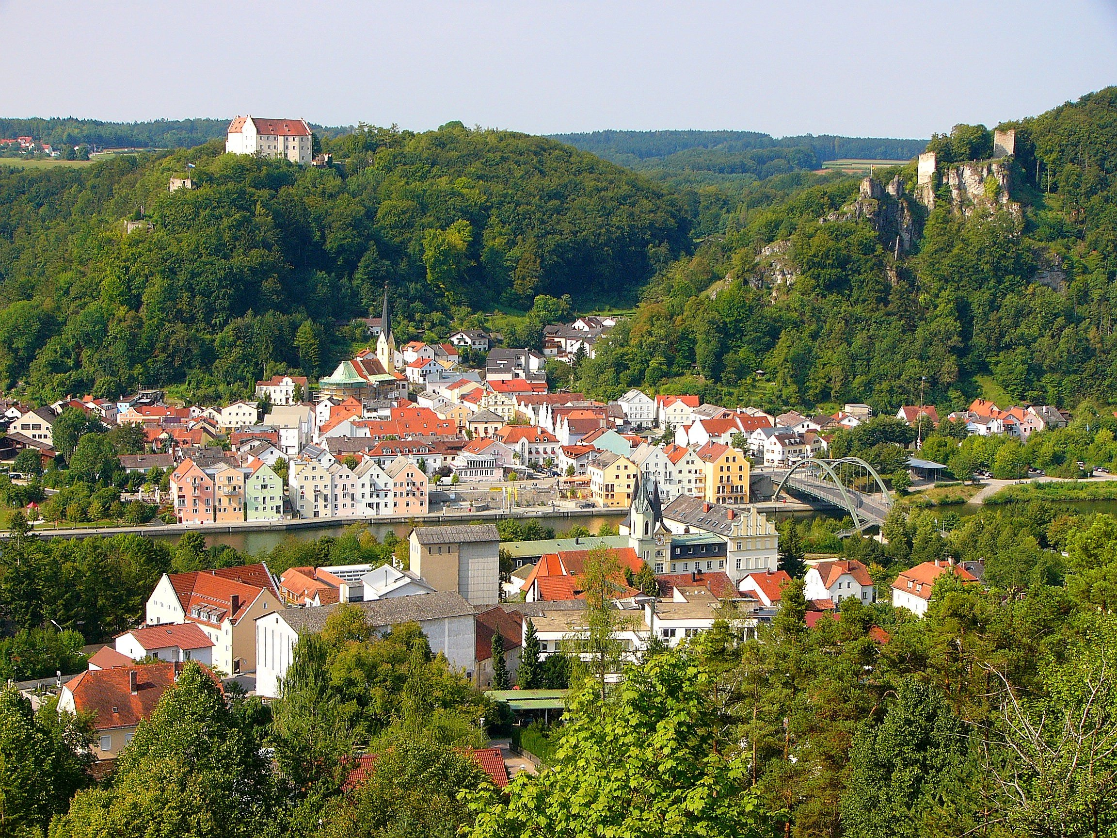 This is a photograph of an architectural monument.